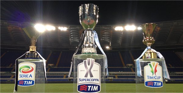 Italia